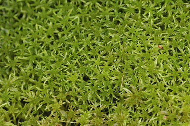 Picture taken in Commanster, Belgian High Ardennes . Species: Sphagnum flexuosum